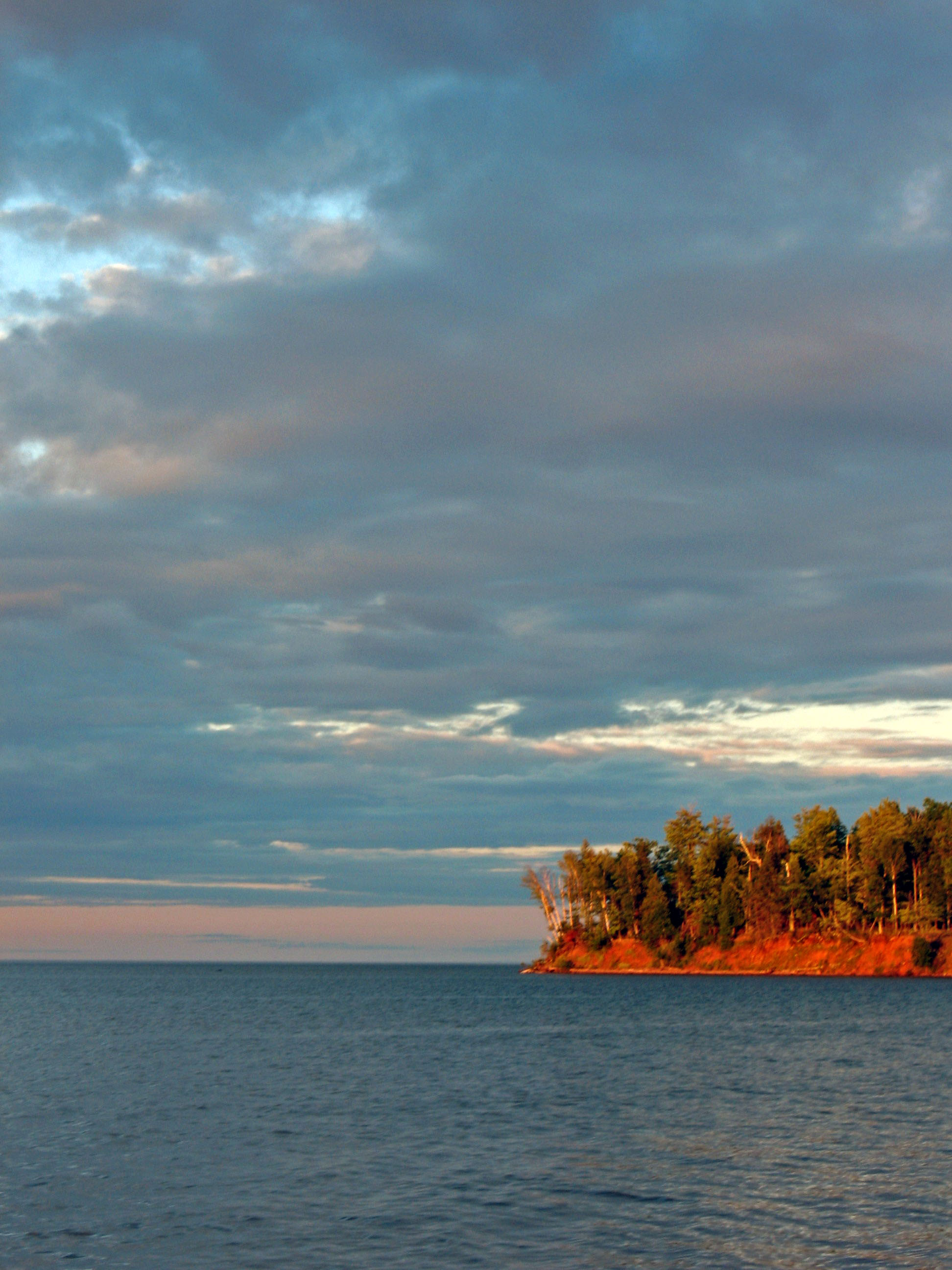 Wisconsin's Big Bay State Park (2008)